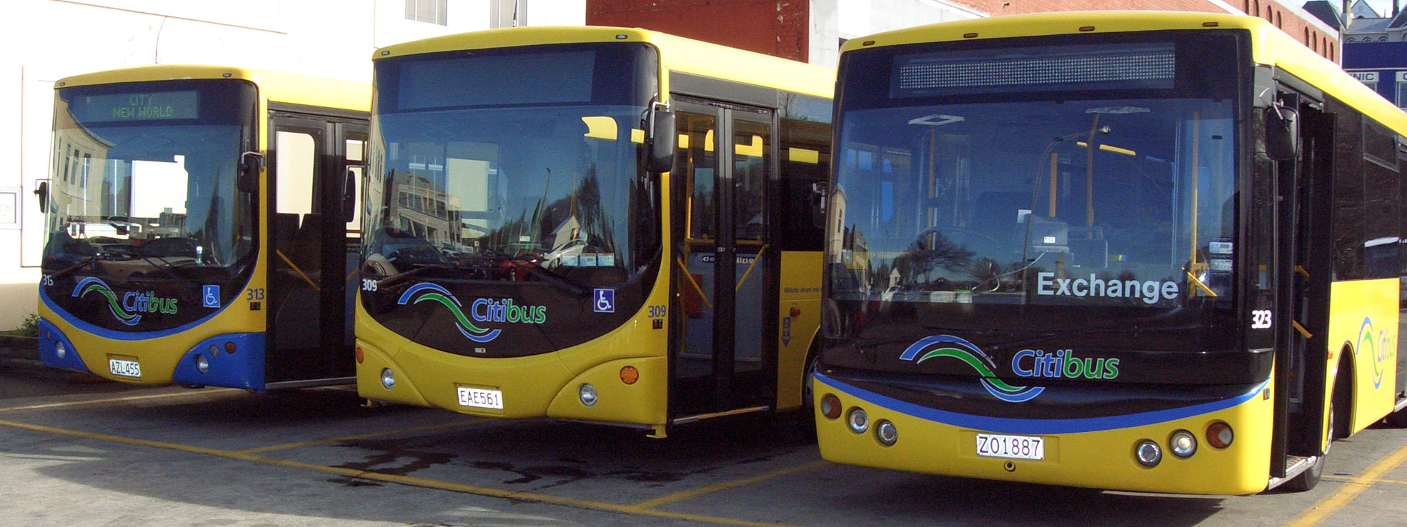 en: Diffrent types of buses buses operated by Citibus (New Zealand): two 2002 MAN 12.223/Designline buses purchased 2002 and 2007 and a MAN 11.220/Designline bus purchased second-hand. Photo by Blueskin Media uploaded byNankai 21:52, 23 September 2007 (UTC)